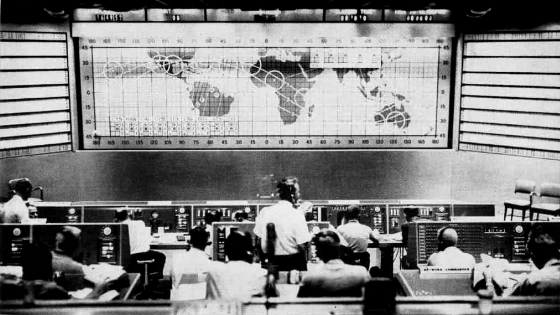 View of Mercury Control at Cape Canaveral Air Force Station, in Florida (USA) during the Mercury-Atlas 6 mission, in February 1962.